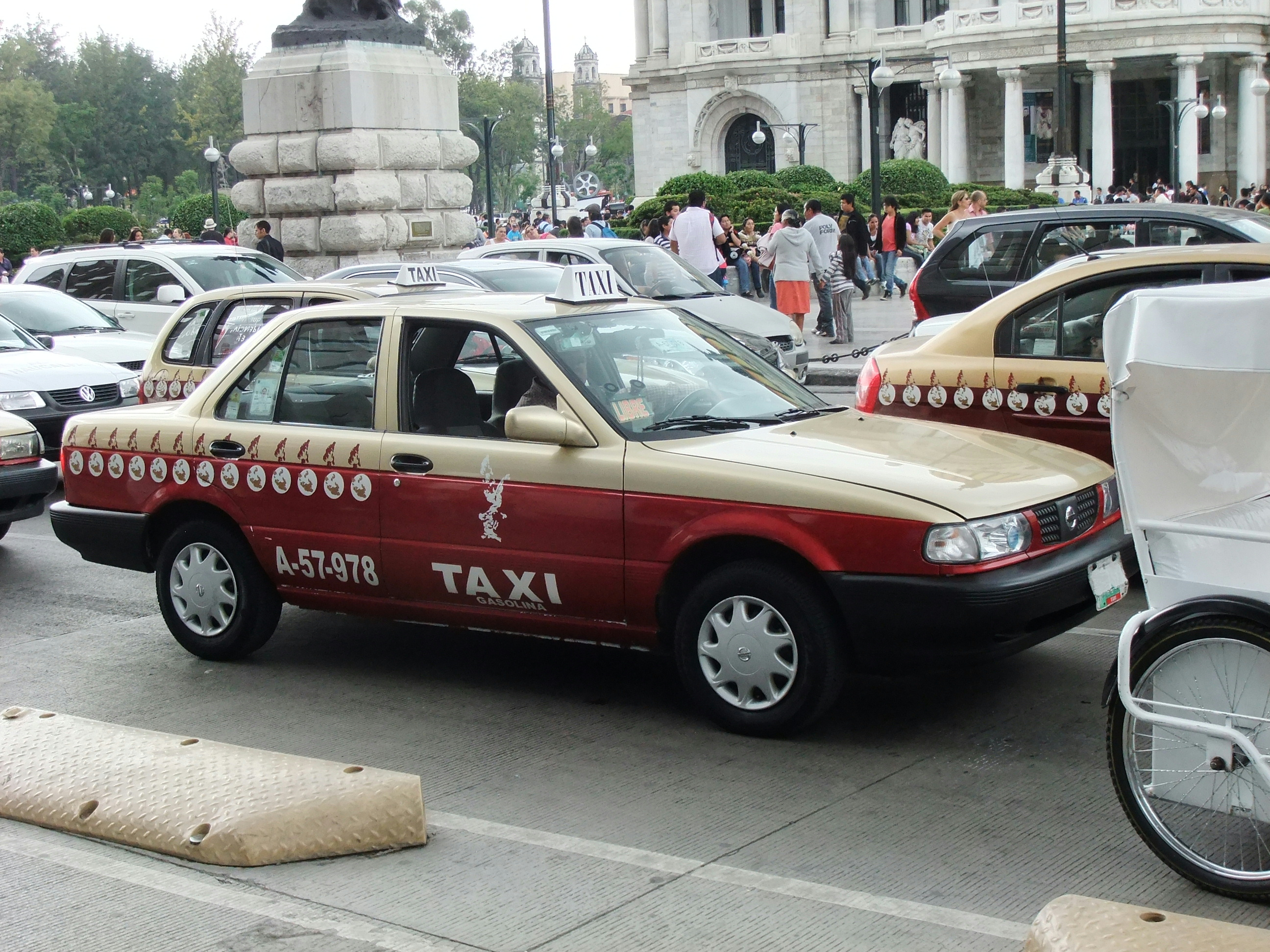 Nissan Tsuru (3rd Gen.) sells in Mexico.